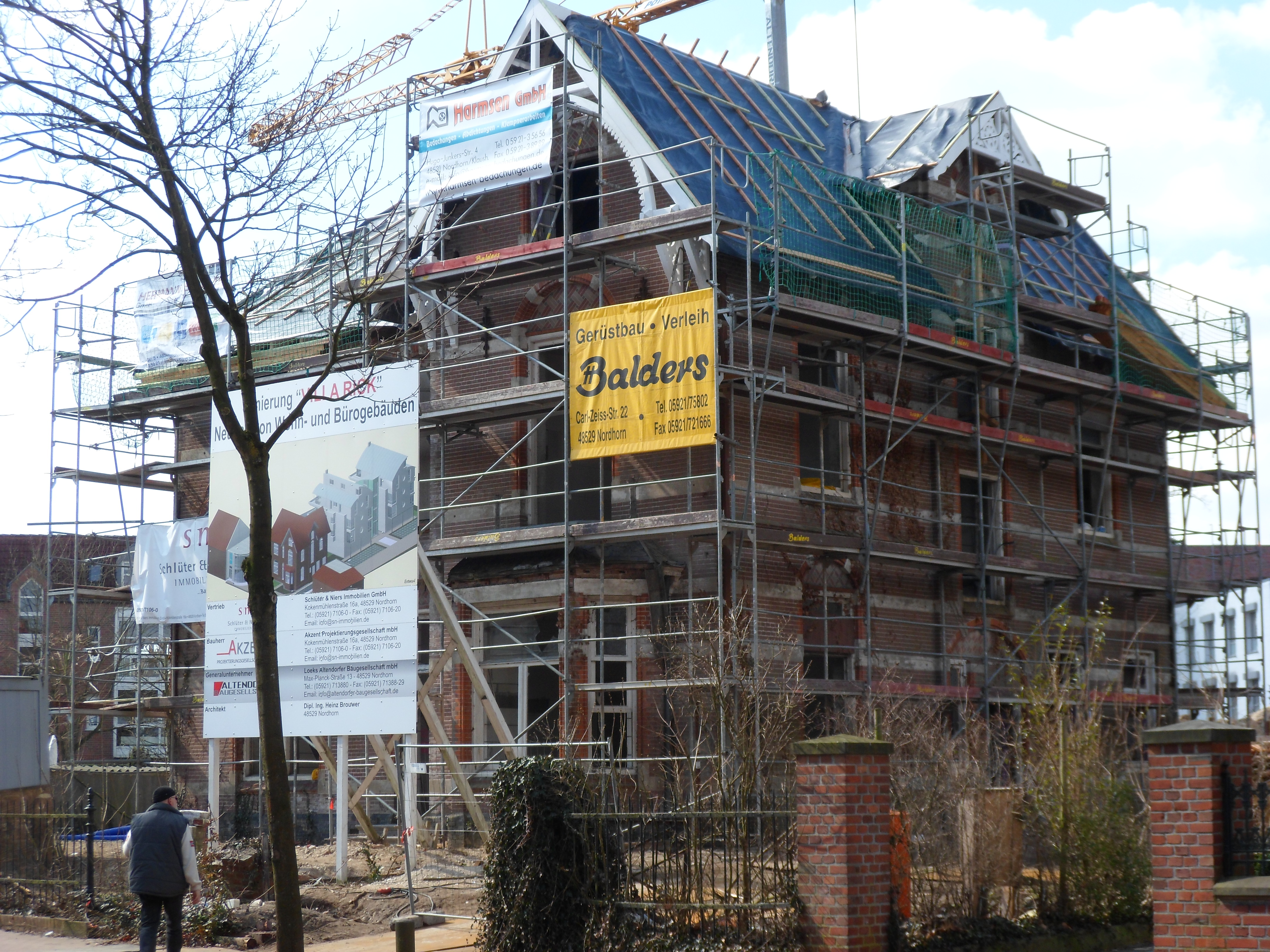 Nordhorn, Villa Rick, Bentheimer Straße 16